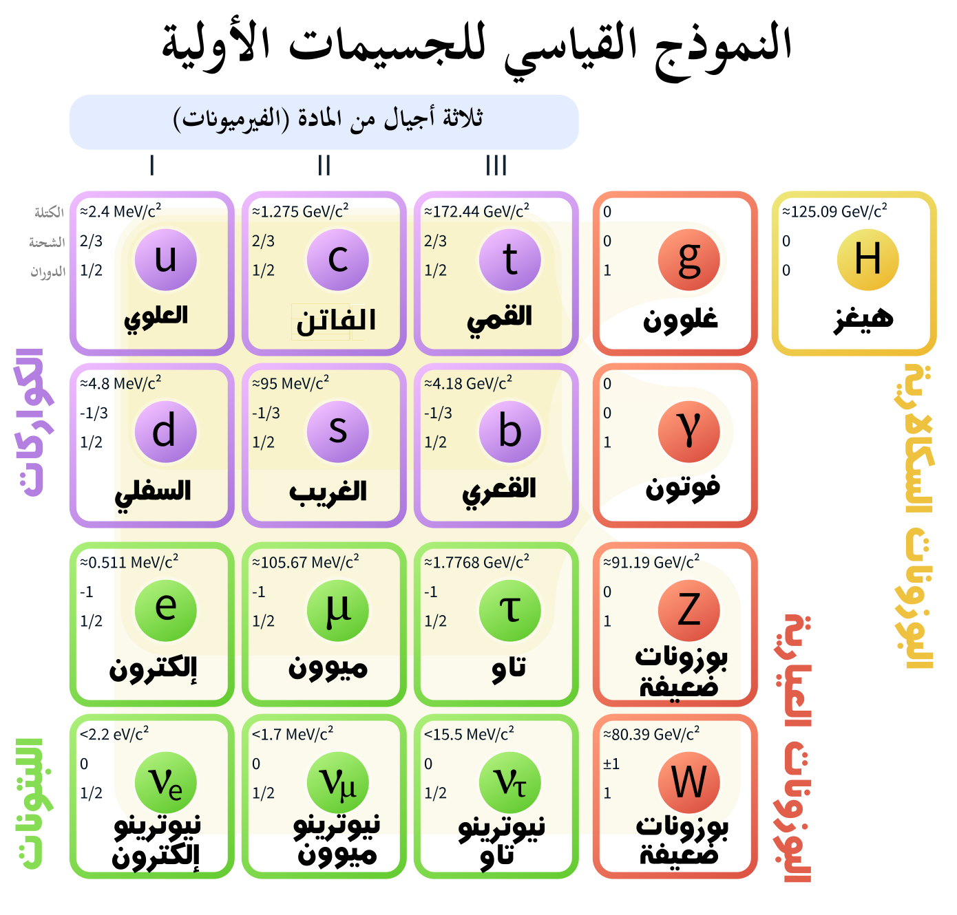 Standard model of elementary particles: the 12 fundamental fermions and 4 fundamental bosons.